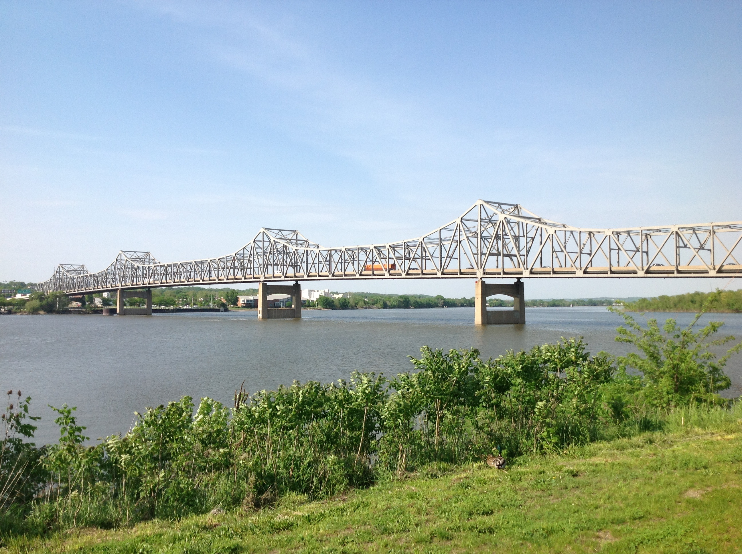 Picture of bridge from park along river in East Peoria.